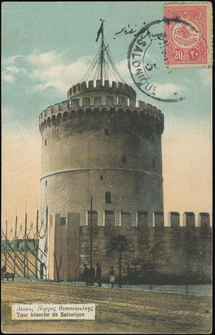 Postcard of the White Tower of Salonika (Thessaloniki), Ottoman Empire